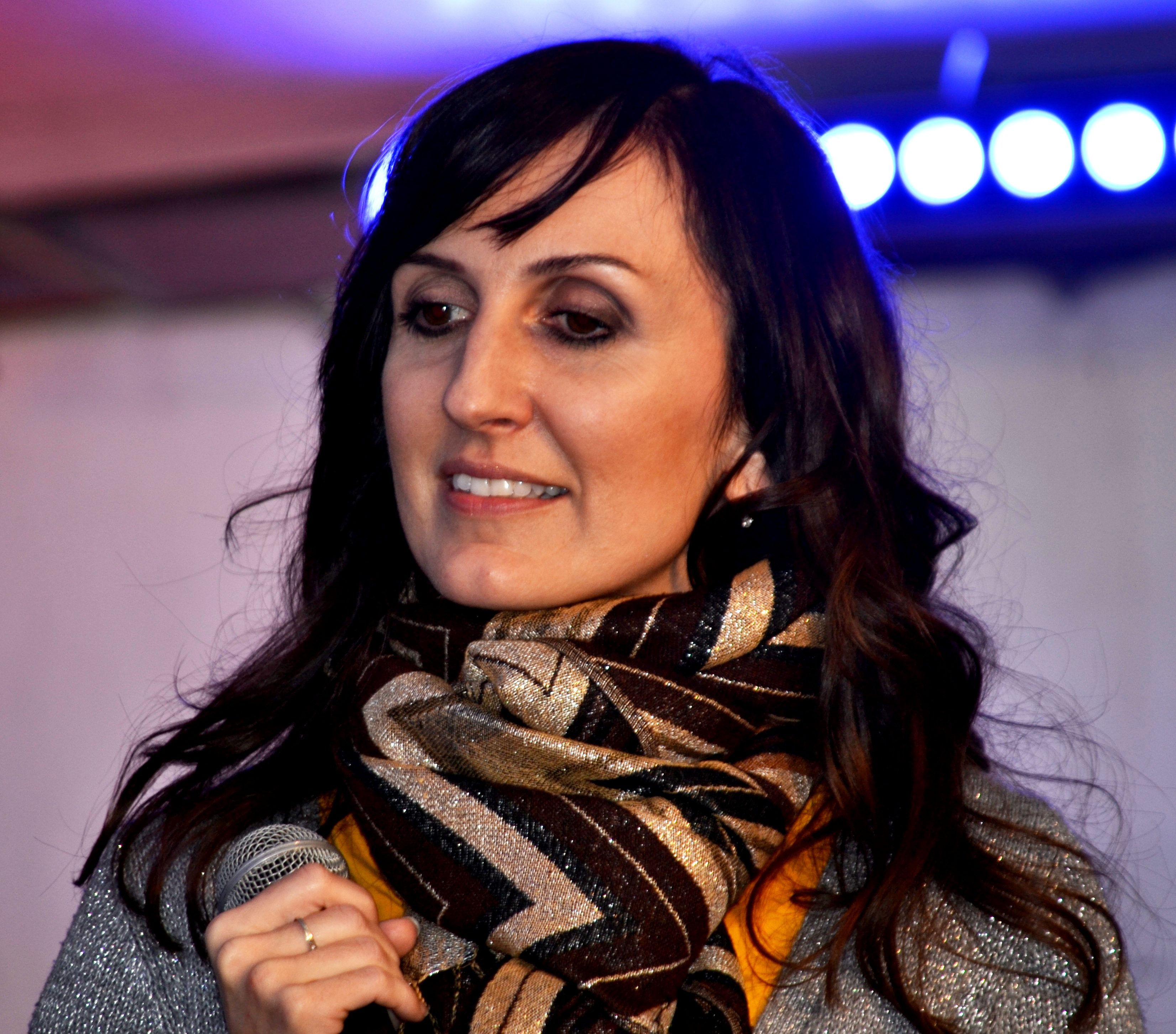 Radka Fišarová, Czech vocalist